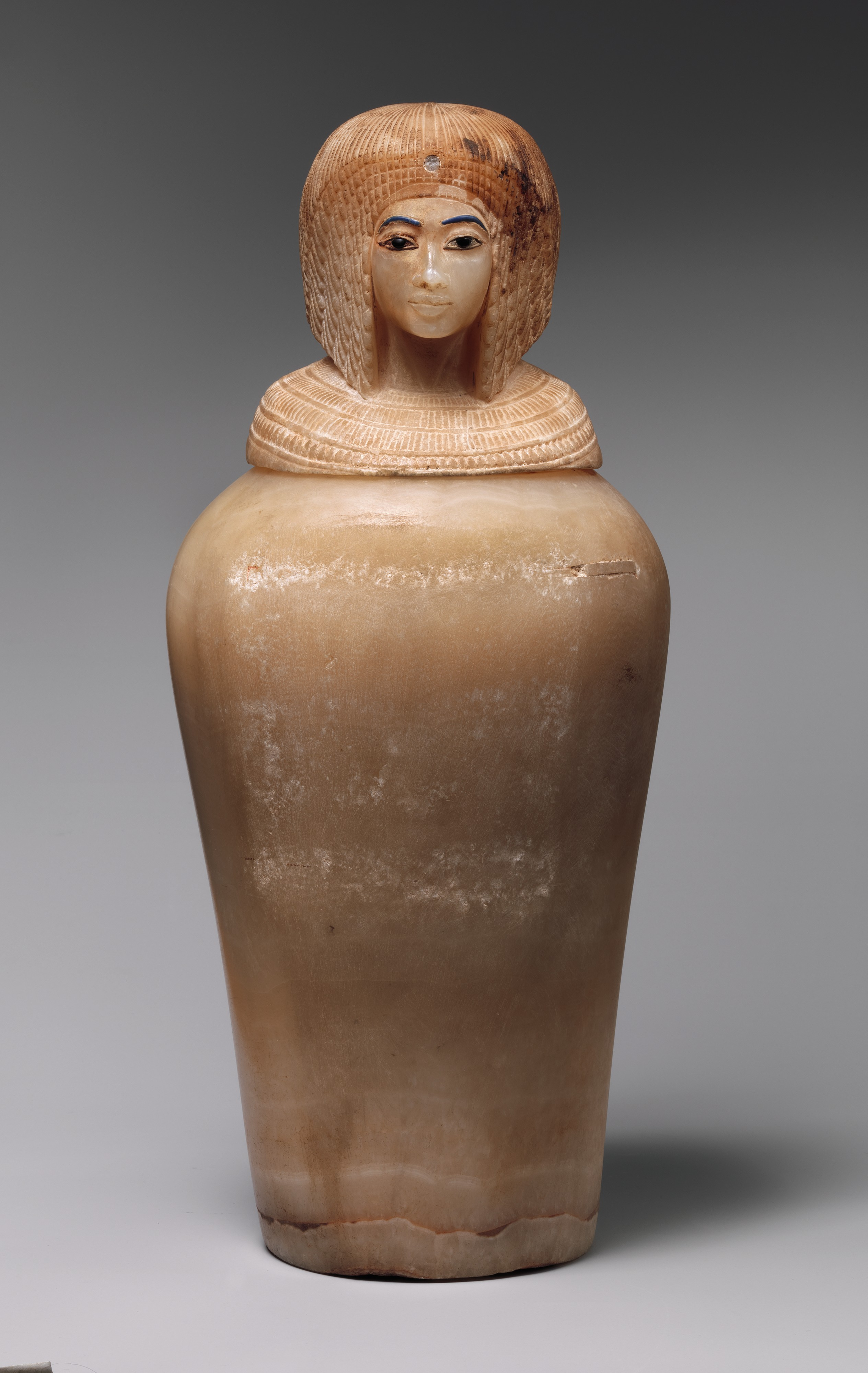 Canopic Jar Lid to the jar 07.226.1 of Kiya, secondary queen of Akhenaten